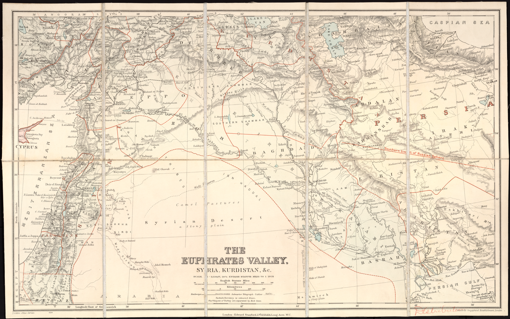 The Euphrates Valley: Syria, Kurdistan, et cetera by Edward Stanford Ltd., 1907-1920 circa